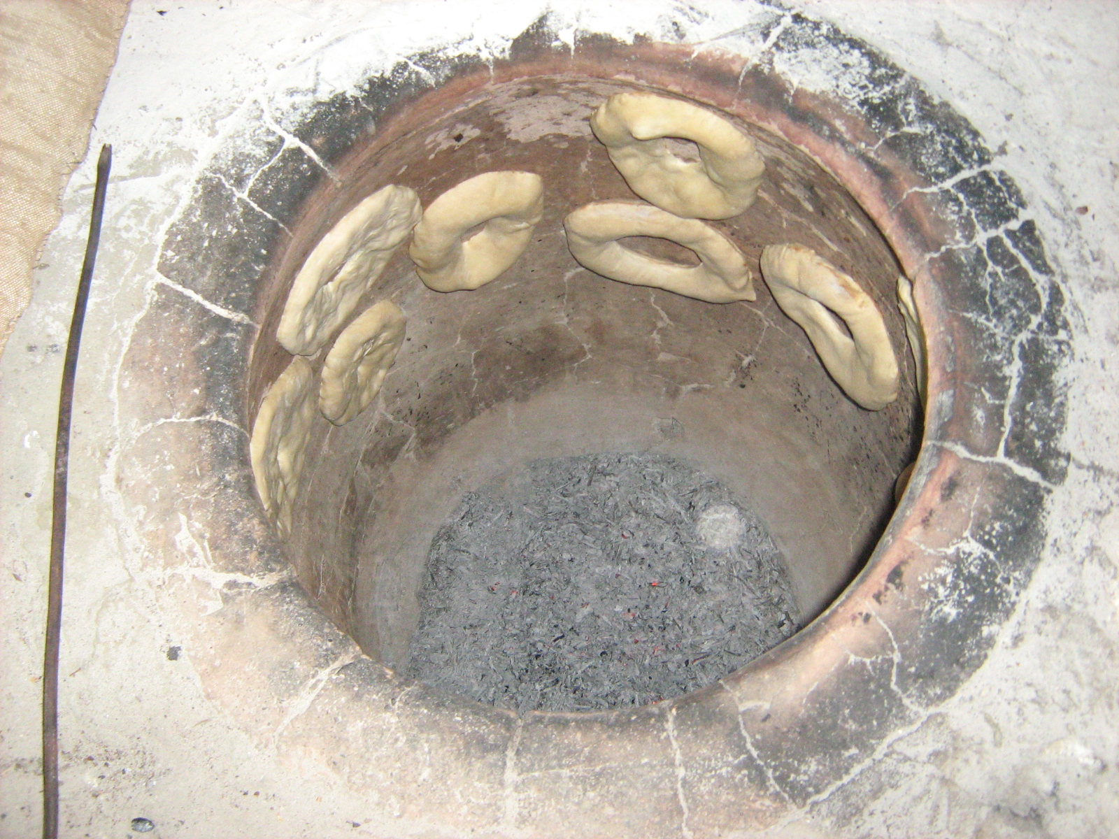 Making bread by tonir